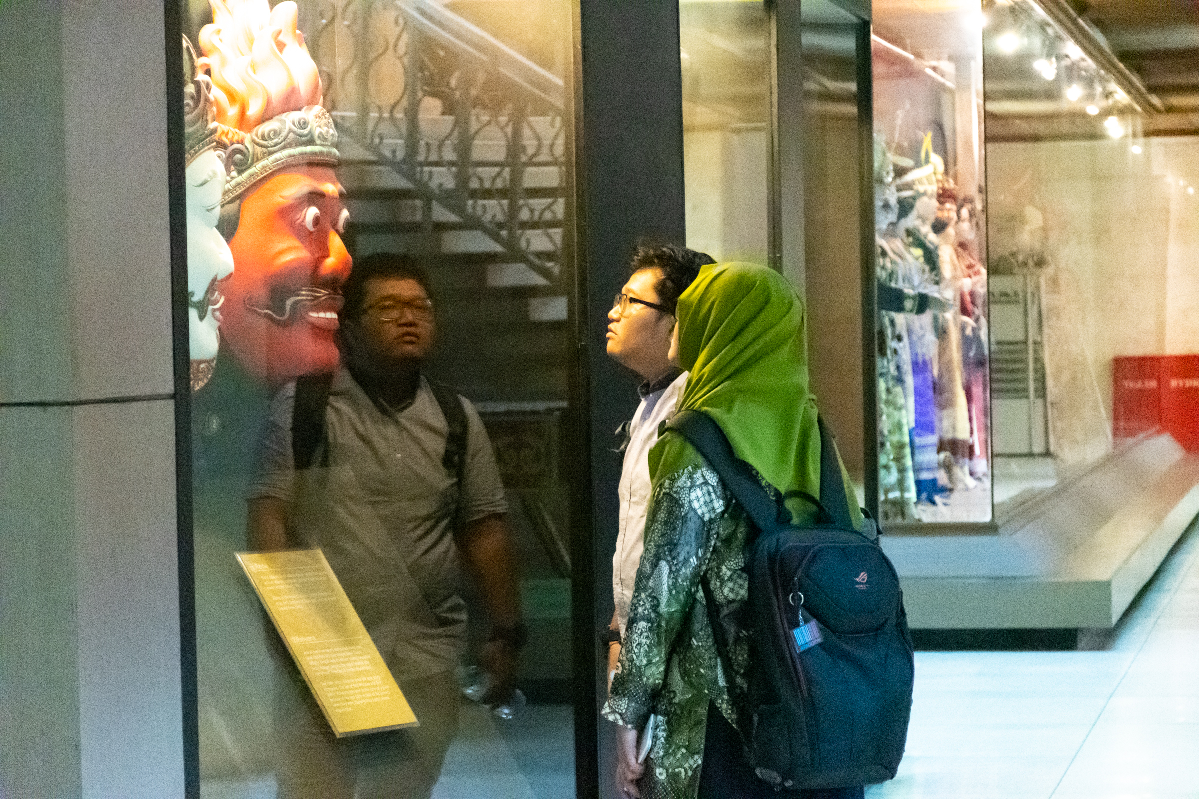 Indonesia Museum of "Beautiful Indonesia" Miniature Park site visit by Wikimedia Indonesia, to follow up proposed cooperation.